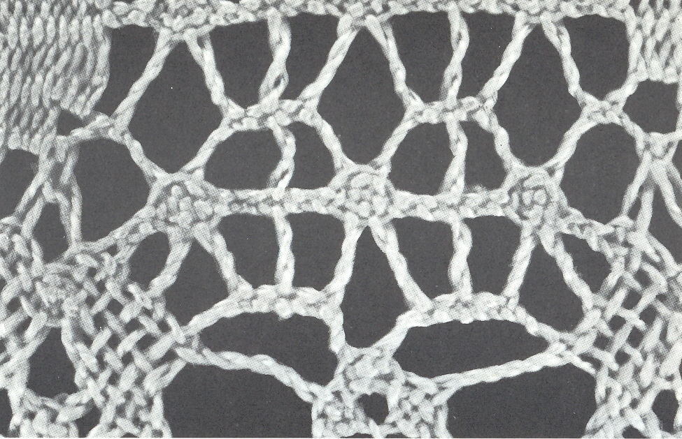 Detail of a machine-made braided lace